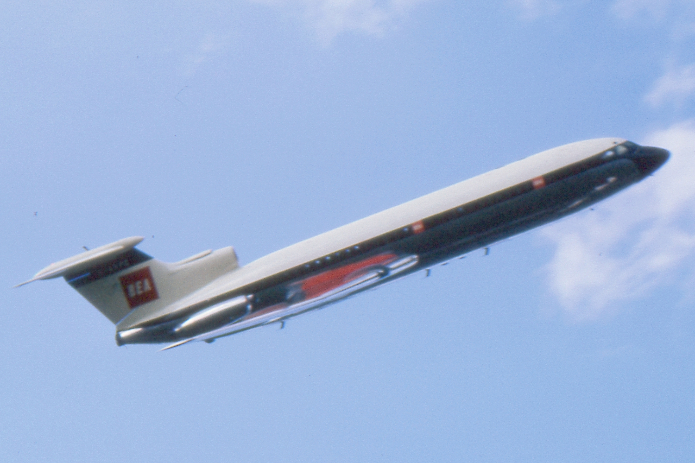 de Havilland Trident at the SBAC show, Farnborough 8 September 1962. G-ARPC was the third aircraft of the first series and had not been flying long as the first Trident only flew on 9 January 1962.